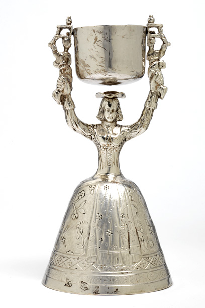 Wager cup, Maker's mark of Joseph Walker, Dublin, Ireland, 1706-7, Silver V&A Museum no. M.1643-1944 Drinking games were sociable activities that tested the skill and dexterity of the participant. The silver wager cup challenges co-ordination. While draining liquid from the milkmaid's skirt, the drinker must balance the full pail below to avoid an embarrassing soaking.